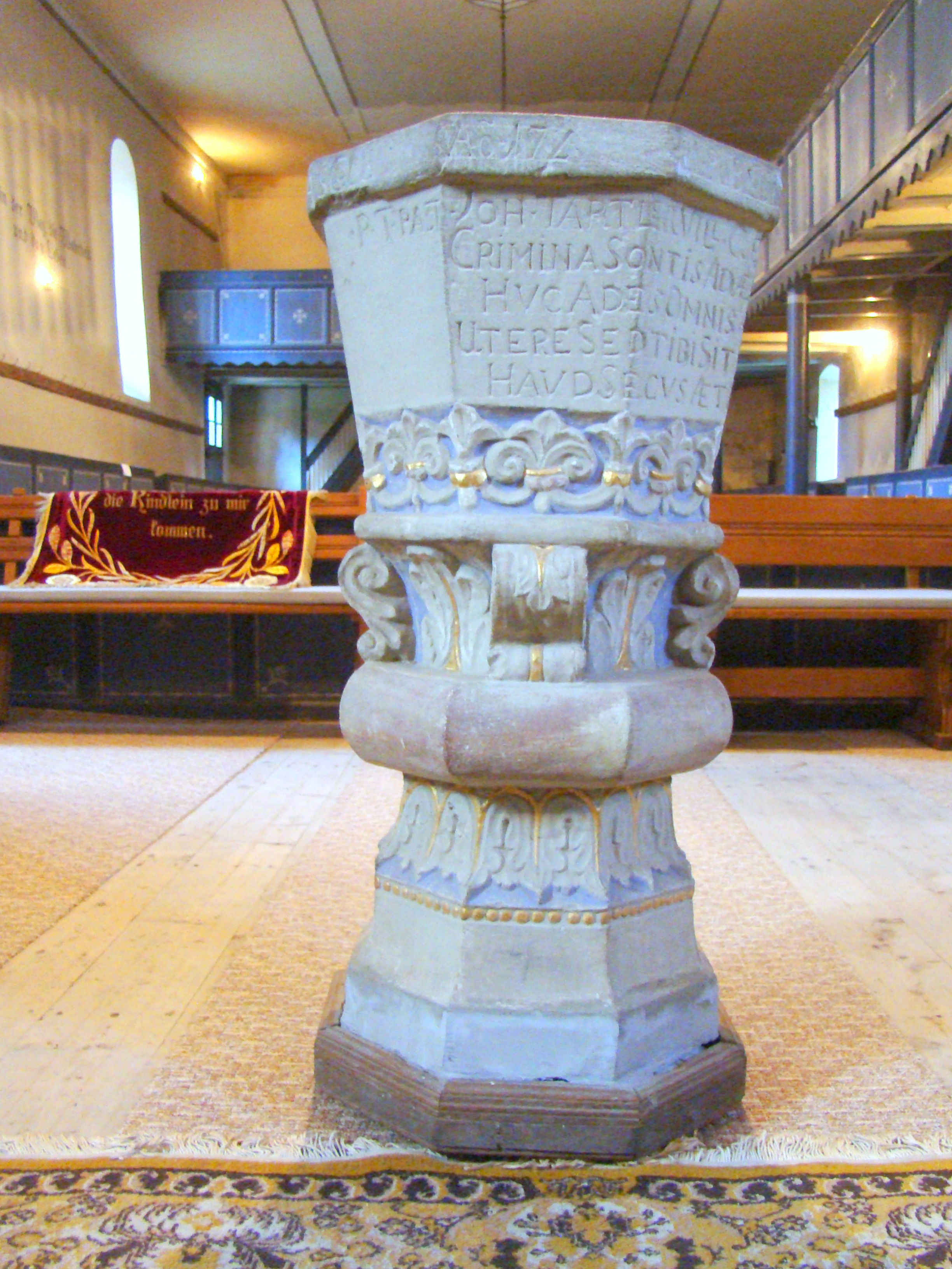 Fortified church in Măieruș, Brașov County, Romania